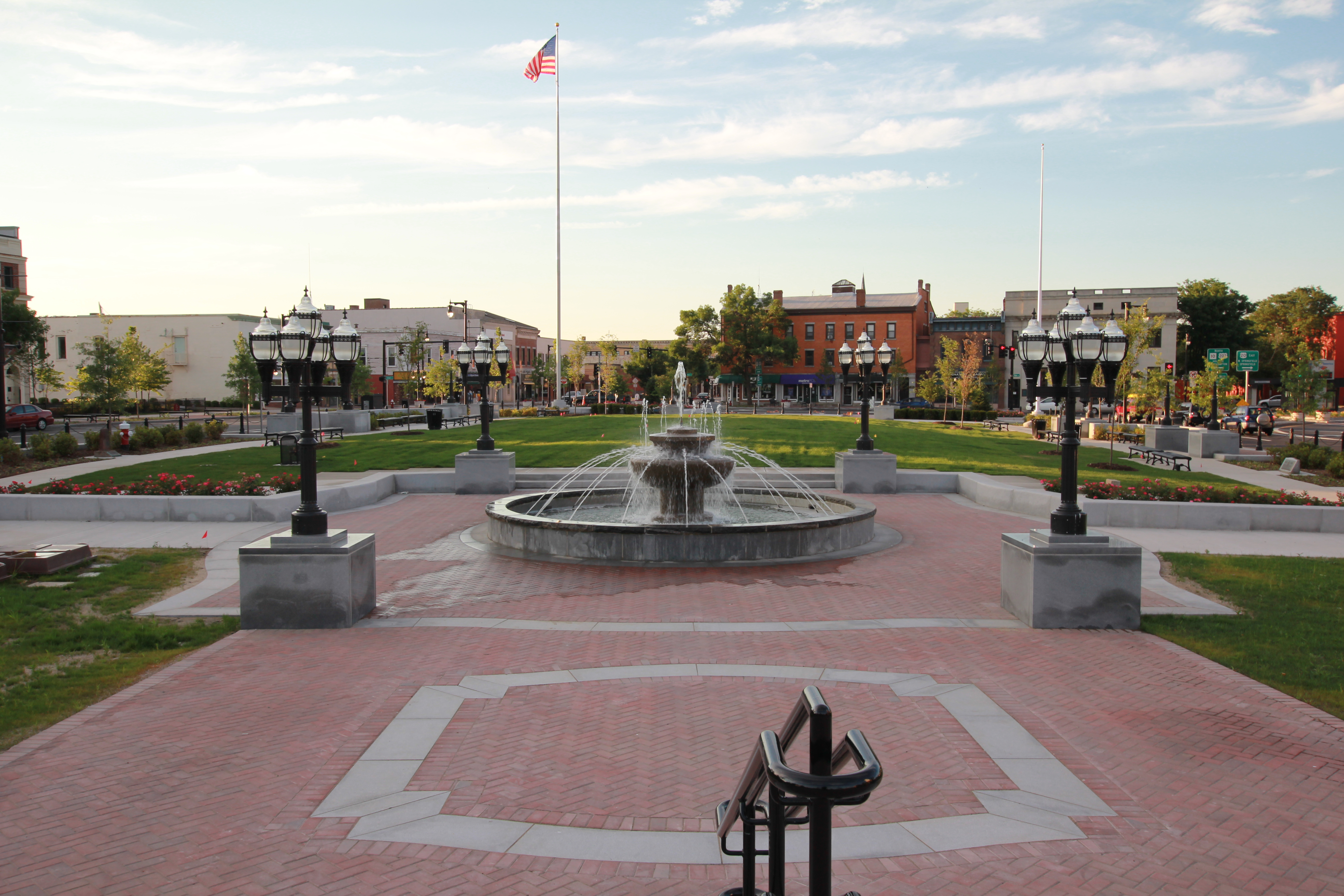 Photo from Park Square (AKA "The Green") as construction nears completion